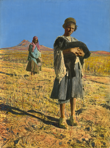 Iran